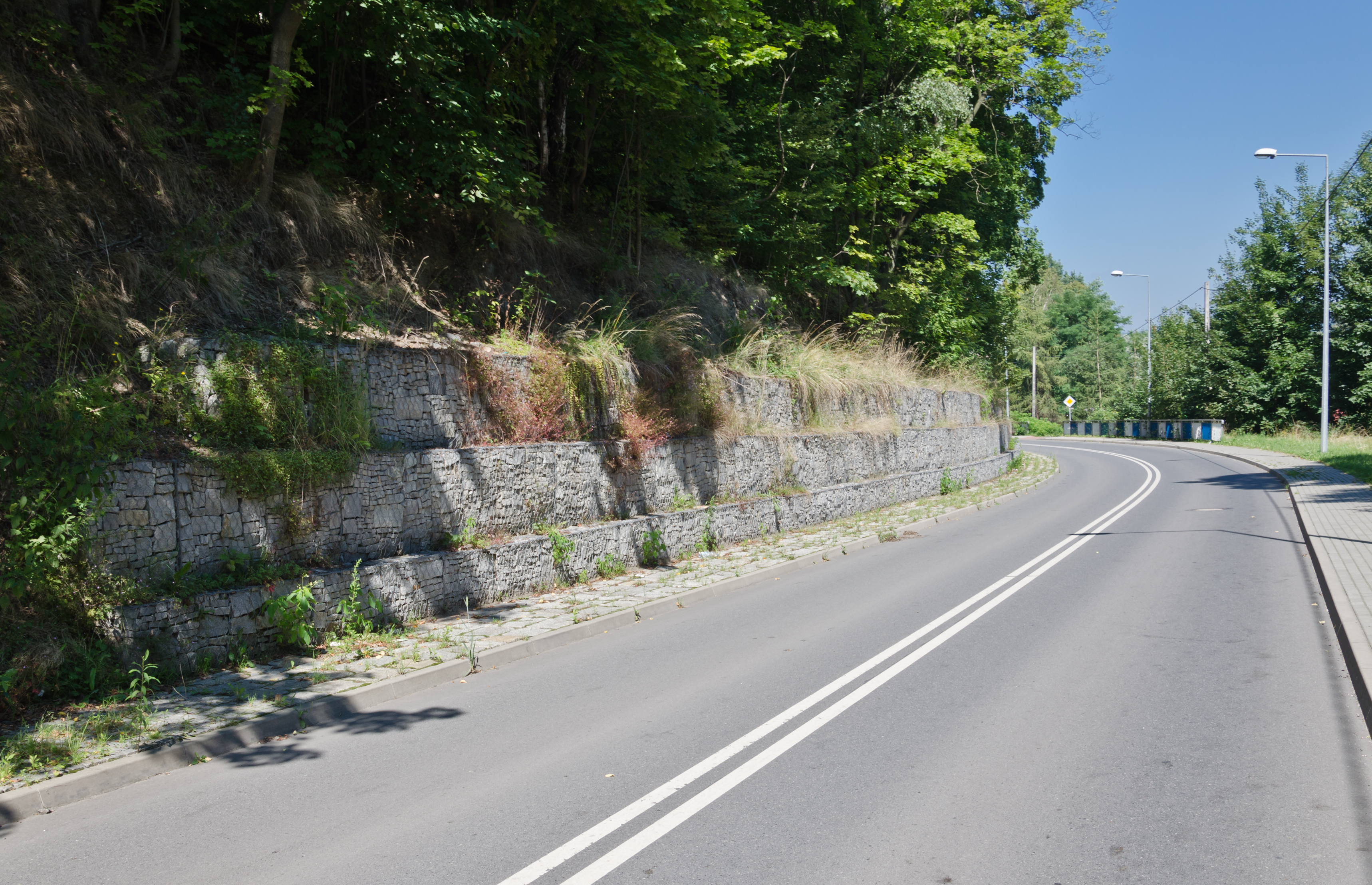 Nadrzeczna Street in Kłodzko, retaining wall